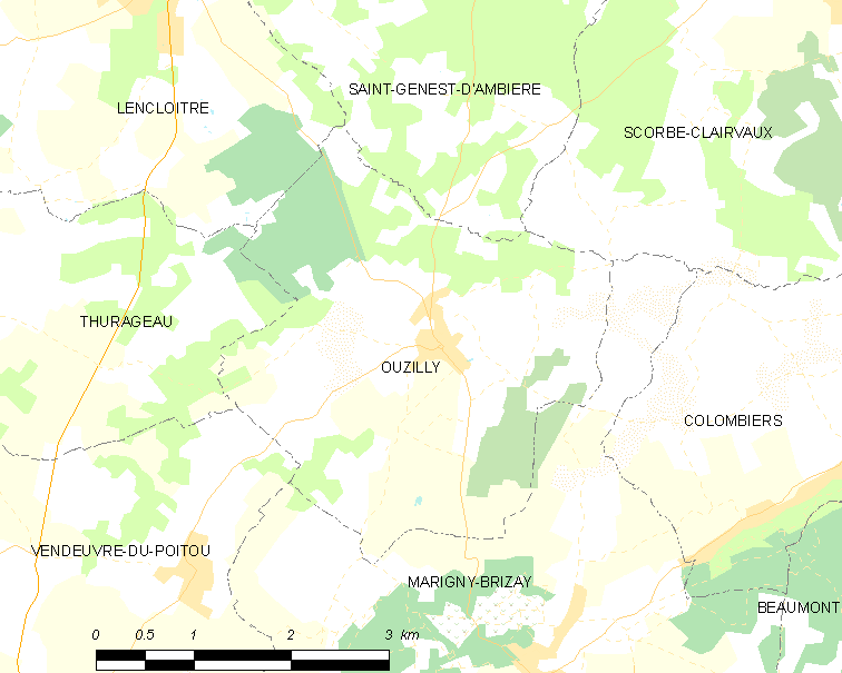 Map of French municipality Ouzilly